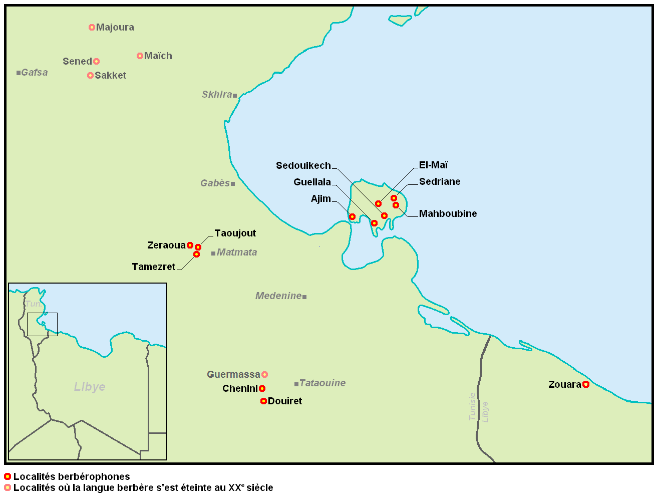 Map of Kossmann's Tunisia-Zuwara Berber dialects speaking areas/localities